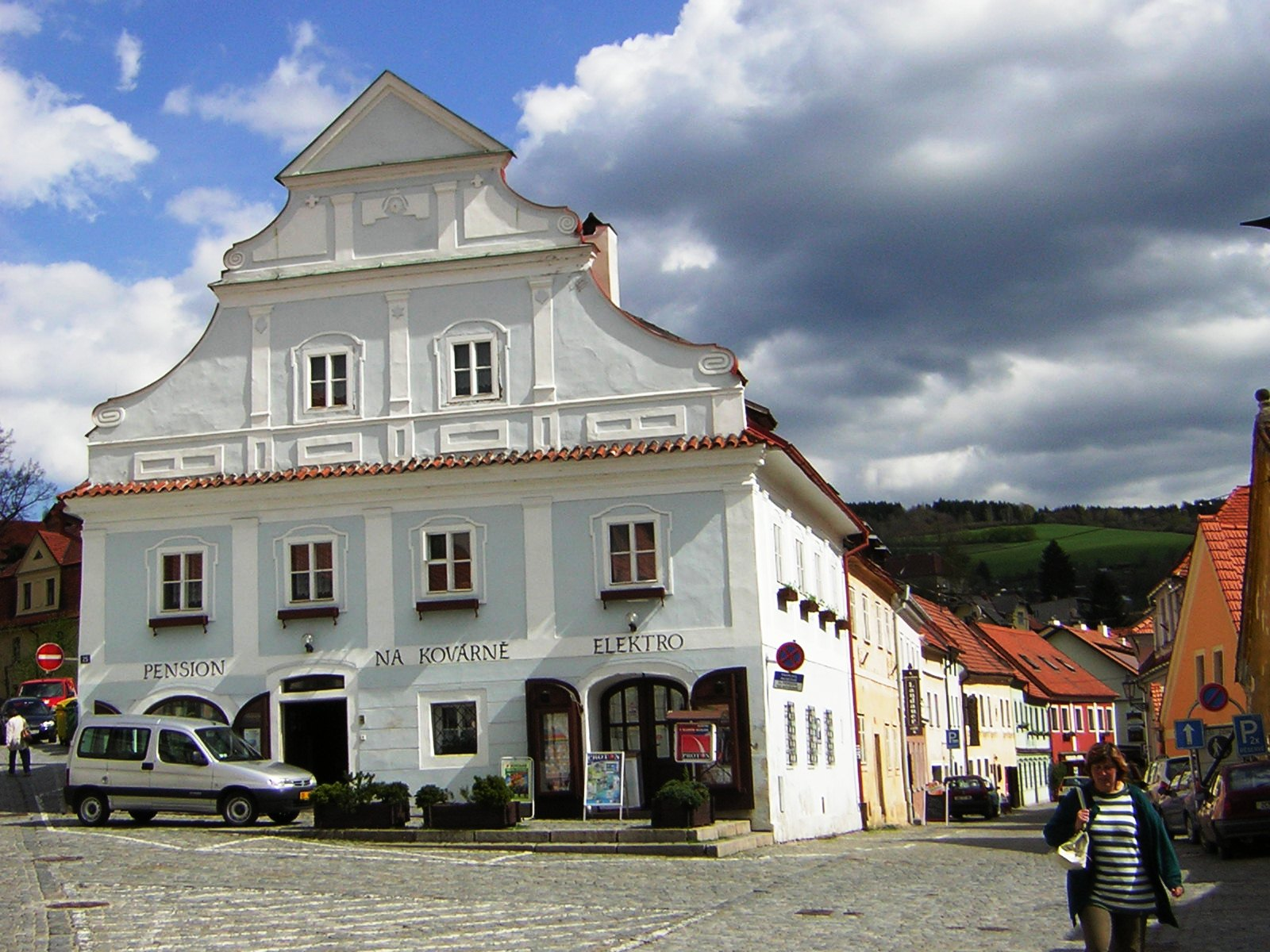 Český Krumlov, house Na kovárně